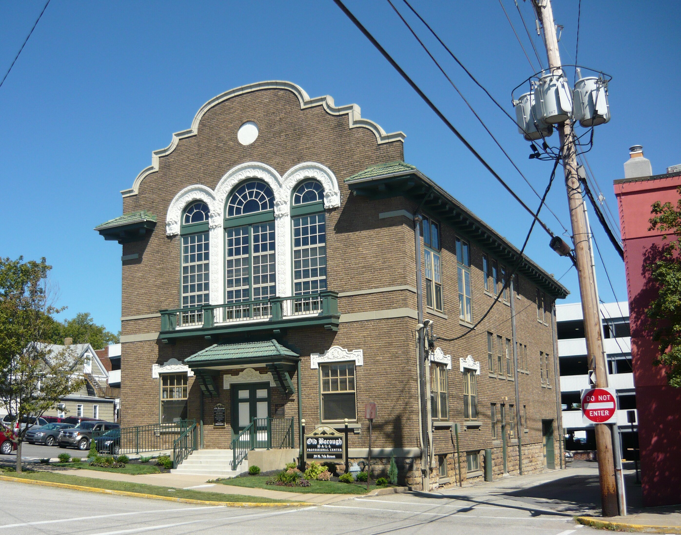 Front and side of the Indiana Borough 1912 Municipal Building (Old Borough Hall) at 39 North 7th Street in Indiana, Pennsylvania. Built in 1912, it is on the National Register of Historic Places.